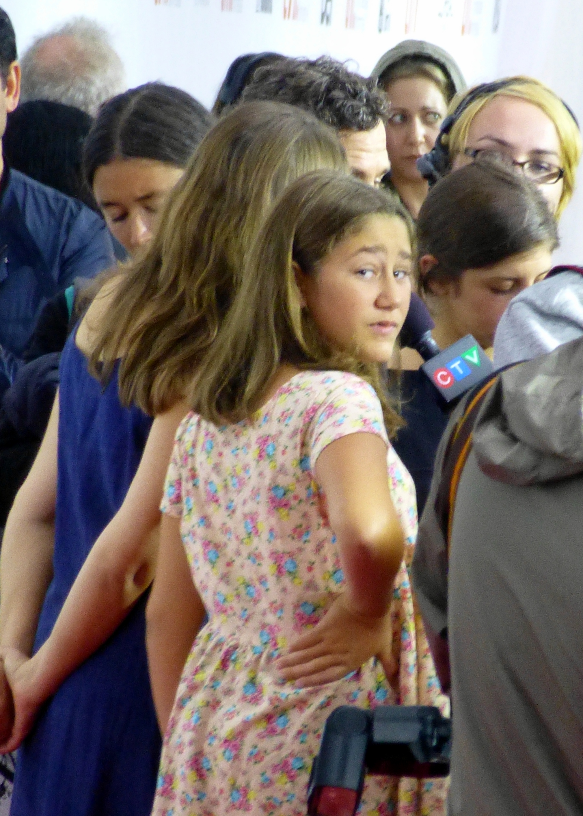 Imogene Wolodarsky at the premiere of Infinitely Polar Bear, Toronto Film Festival 2014